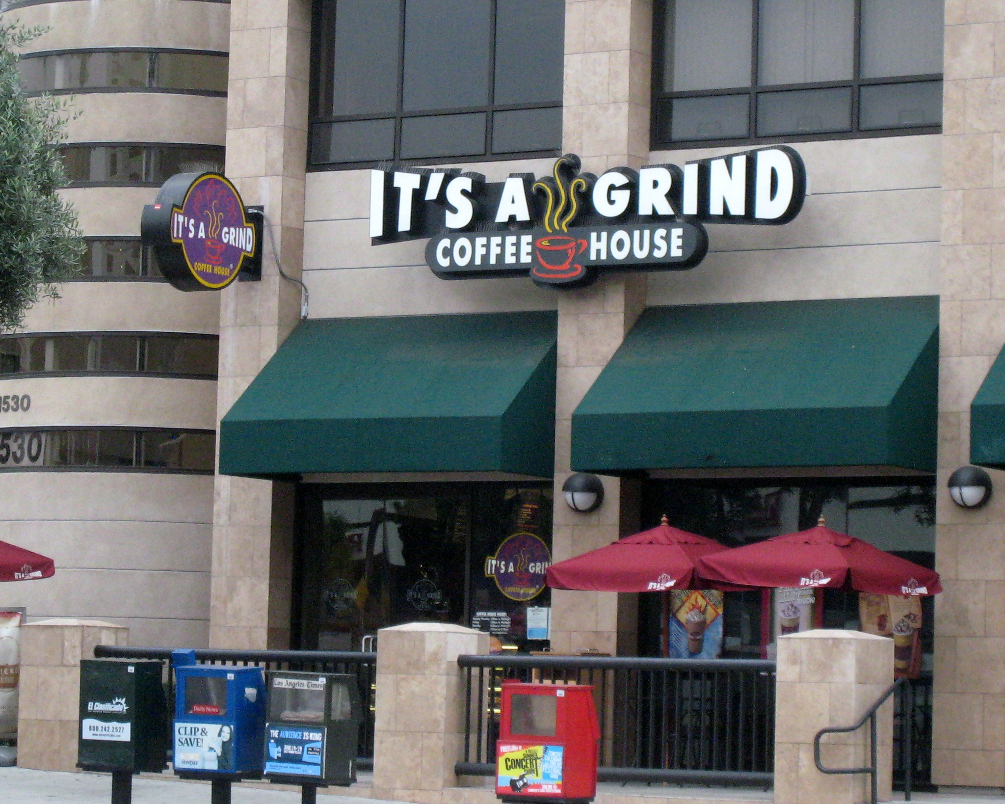 It's a Grind coffee store in Los Angeles, California